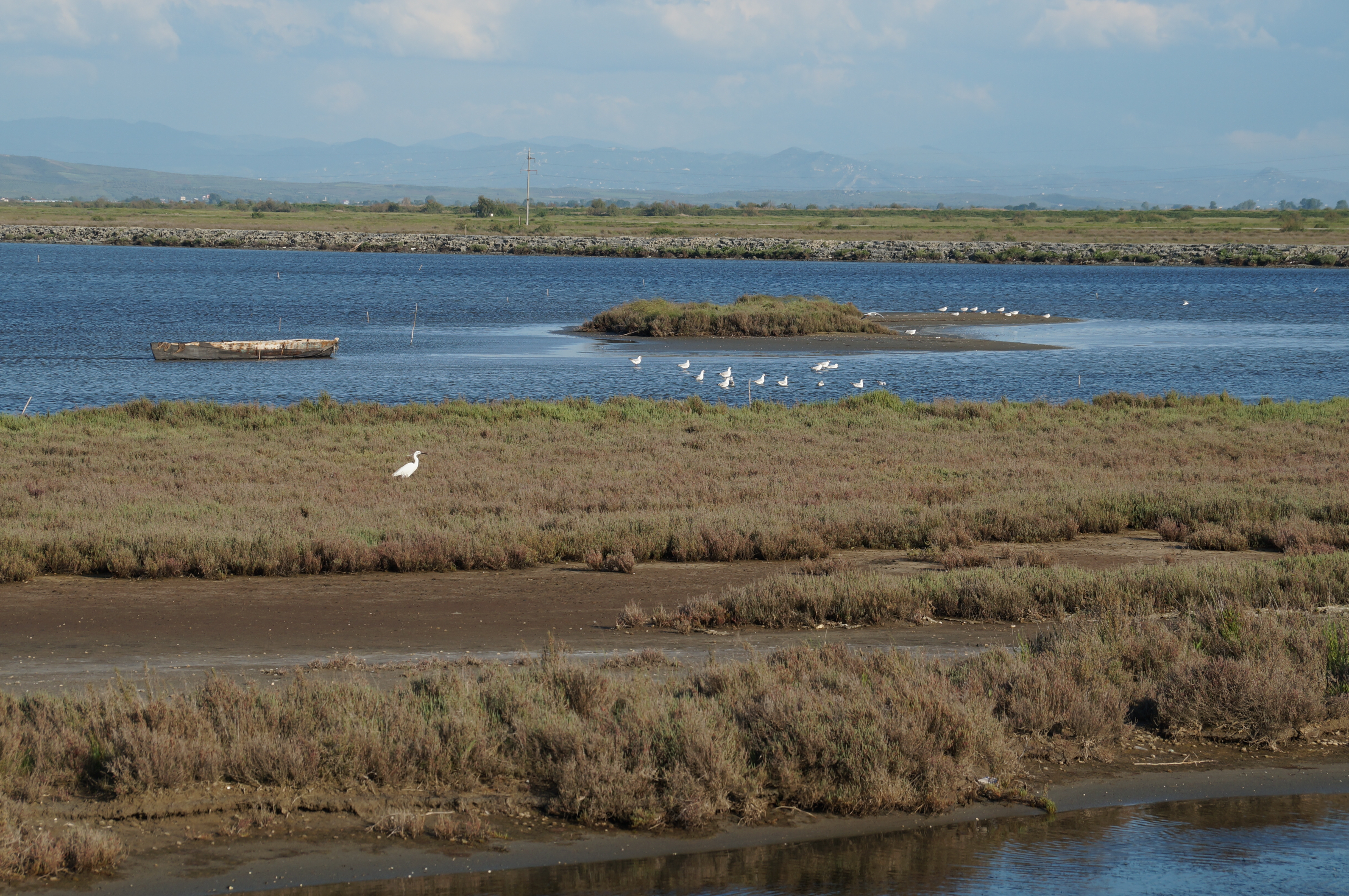 Karavasta lagoon – Southern End, Albania